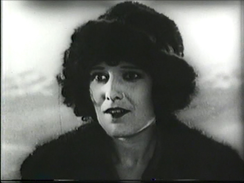 Georgia Hale from "The Gold Rush".